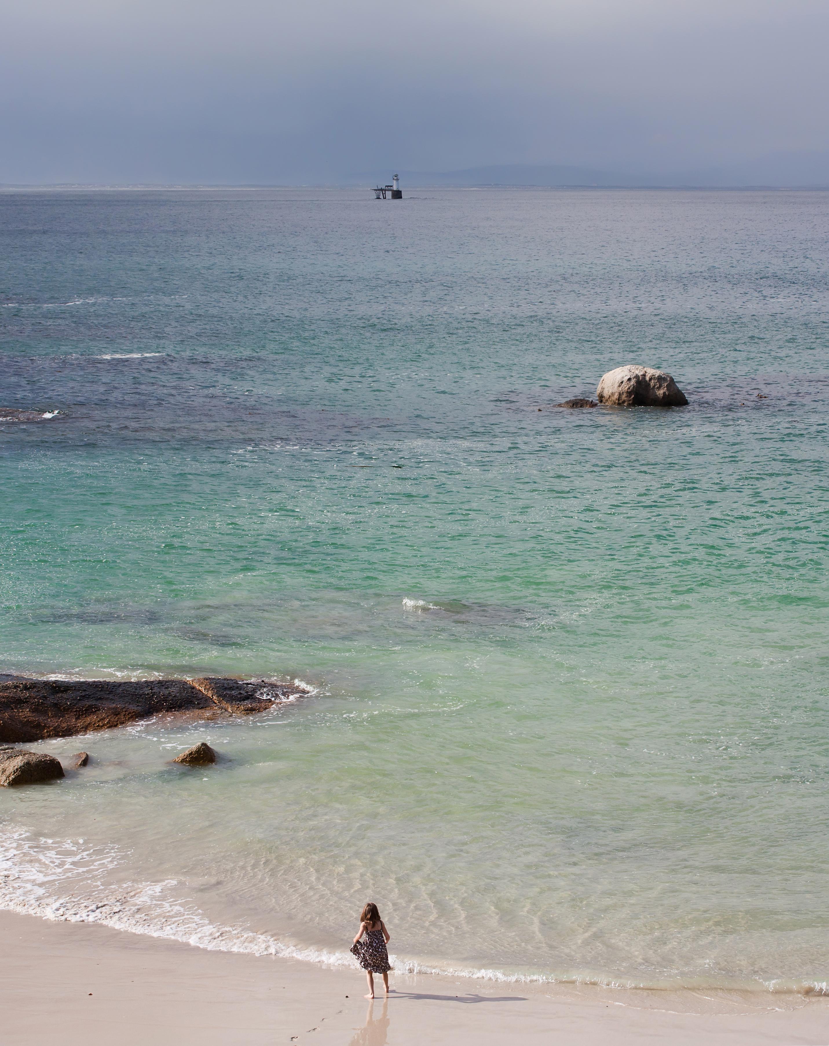 A young girl playing on the beach, near Boulders Beach, False Bay, Simon's Town, South Africa, with the Roman Rock lighthouse in the background.